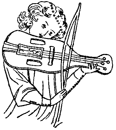 Drawing of a minnesinger playing a minnesinger fiddle from the Manesse MSS (Germany, 13th century). From Julius Rühlmann's Geschichte der Bogeninstrumente.